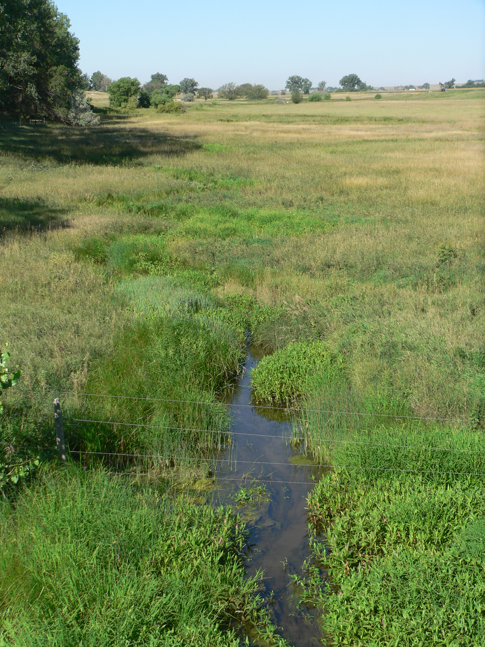 Lodgepole Creek in Kimball County, Nebraska: looking west (upstream) from the Nebraska Highway 71 bridge just north of Kimball.